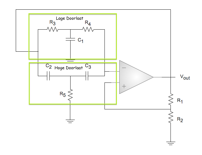 Opstelling Twin-T brug